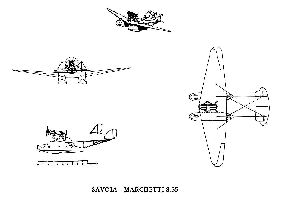 Savoia-Marchetti S.55 flying boat